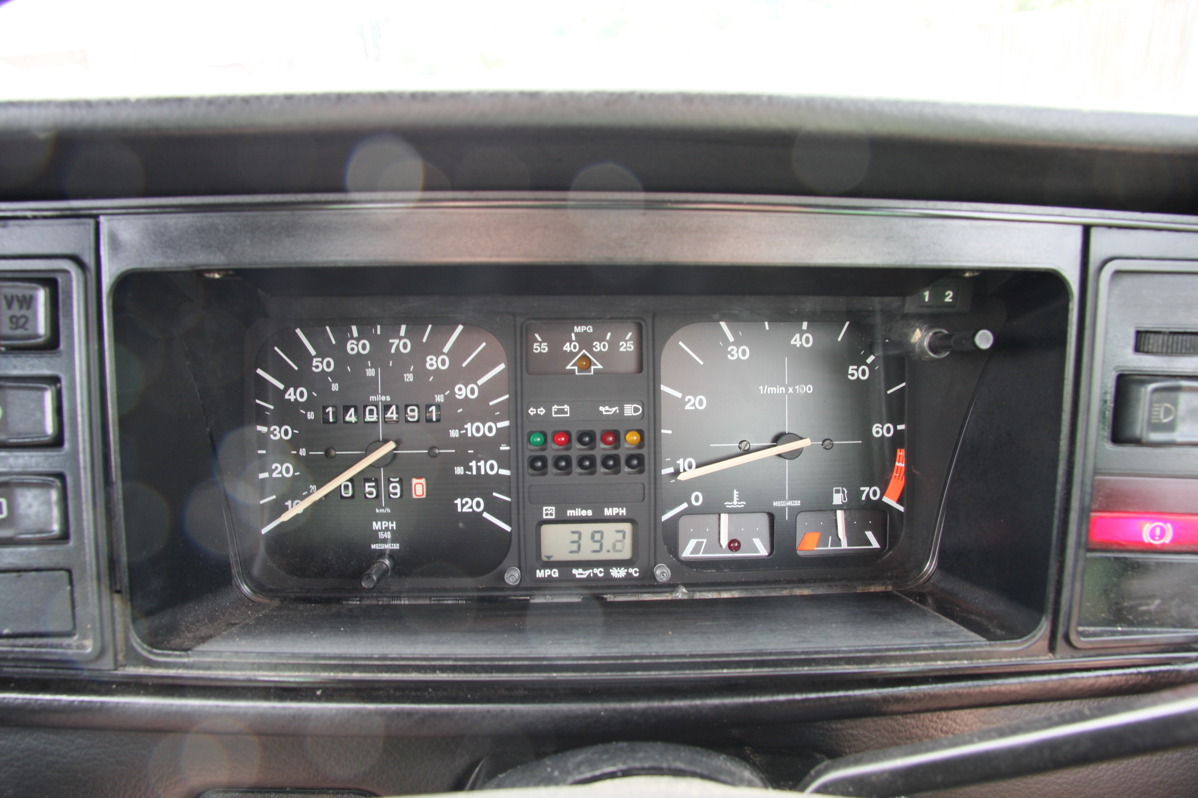 The dashboard of a Volkswagen Golf Mk1 GTI